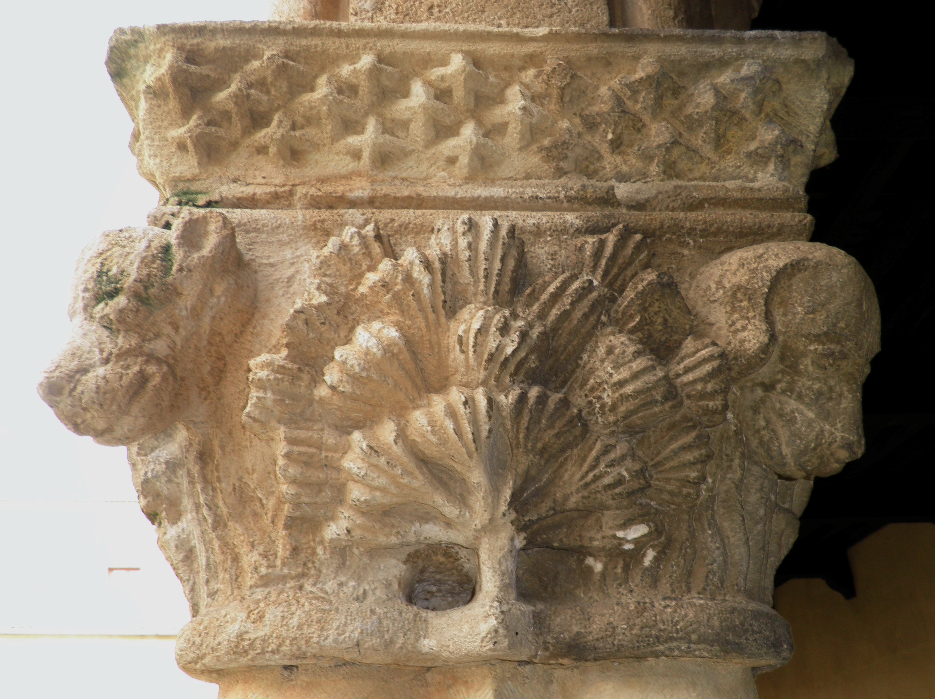 5th capital in southern corridor of the church of Santa María la Real de Nieva, Segovia province, Spain. Dog heads guarding the Lord's tree, allegory of Dominican Order.